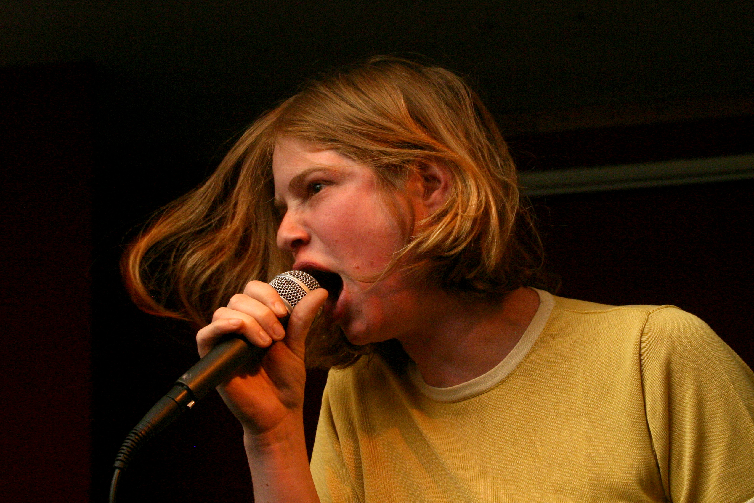 Maya Dunietz on stage, 2006